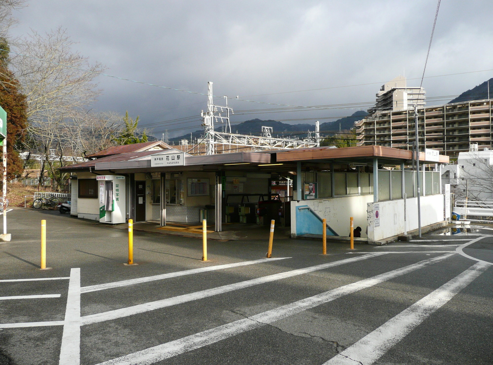 Kobe Electric Railway Hanayama Station